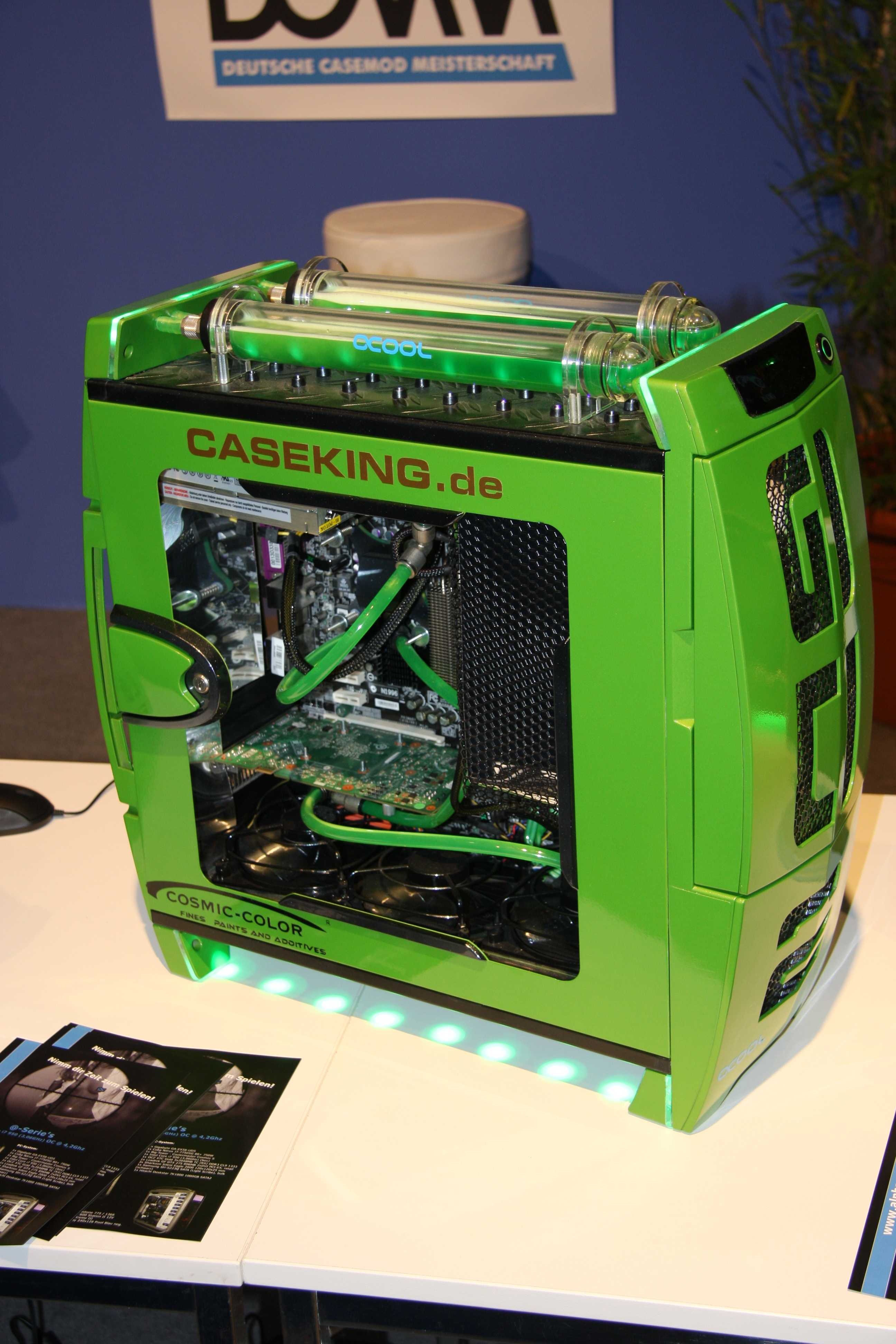 A PC case of the case modding contest at the Gamescom 2009